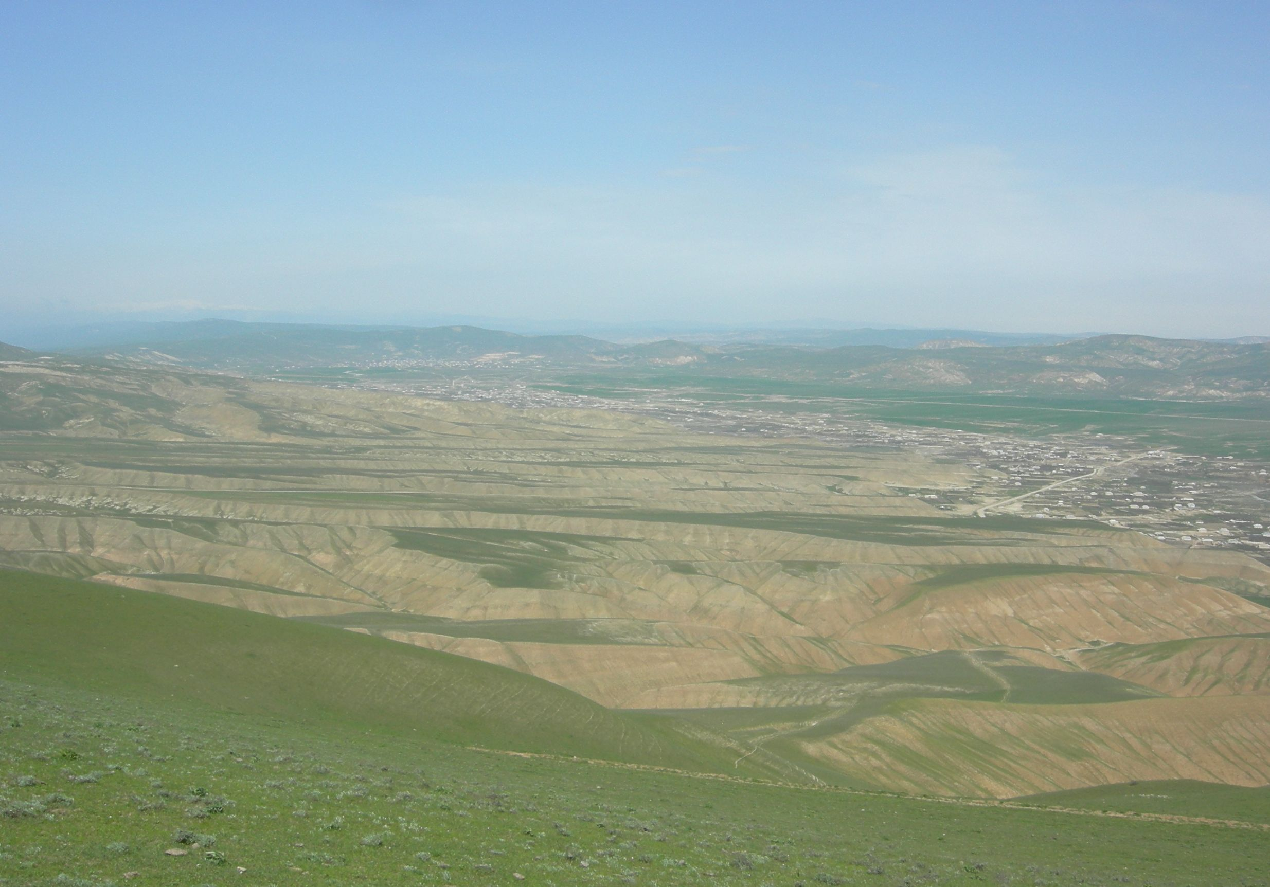 Pirsaat River valley with Birinci Udullu village, nortern part of Hacıqabul rayon, Azerbaijan